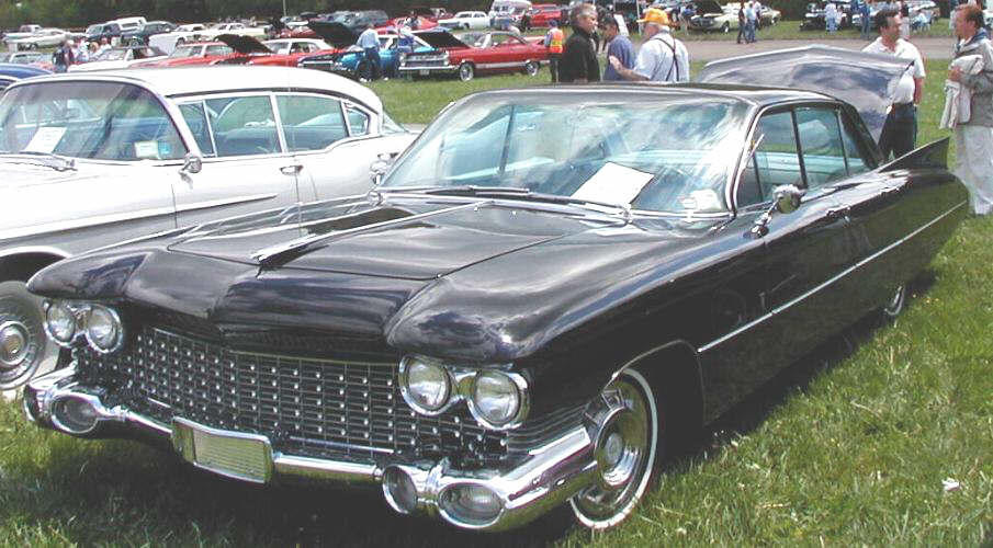 Taken at Norwich NY Car show This car is very rare. The 1960 Cadillac Eldorado Broughams are the last of the hand crafted cars, despite being production models, that is models included in the product catalogs for these two years. In an effort to reduce production costs, the second generation Eldorado Broughams were built in Turin, Italy, at the Pinin Farina workshops.1960 Eldorado brougham